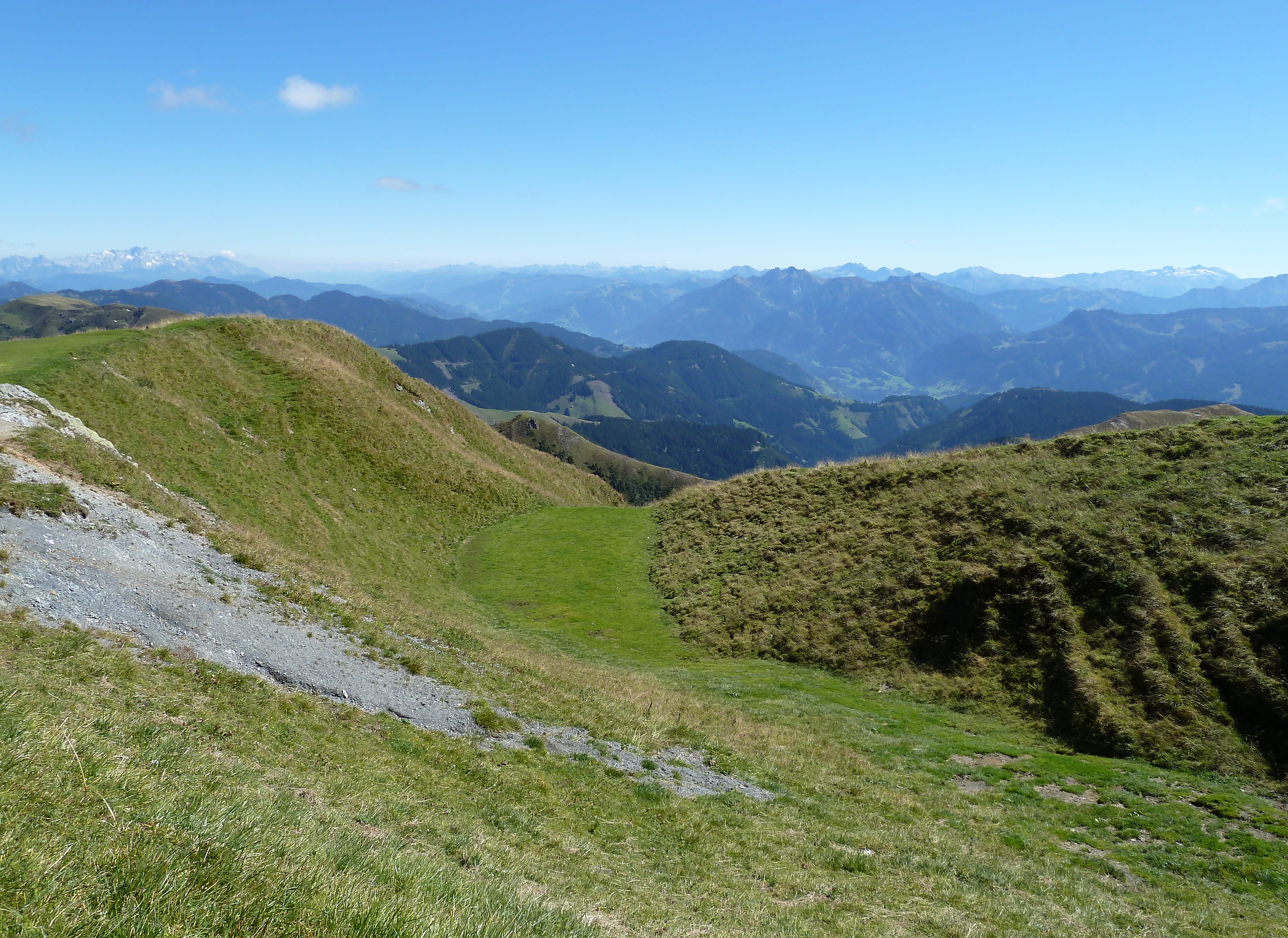 Hundstein (2117 m) in Salzburg (state)